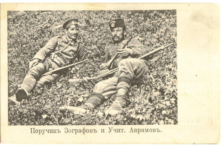 Portrait of SMAC revolutionaries Dimitar Zografov and the schoolteacher Kocho Avramov